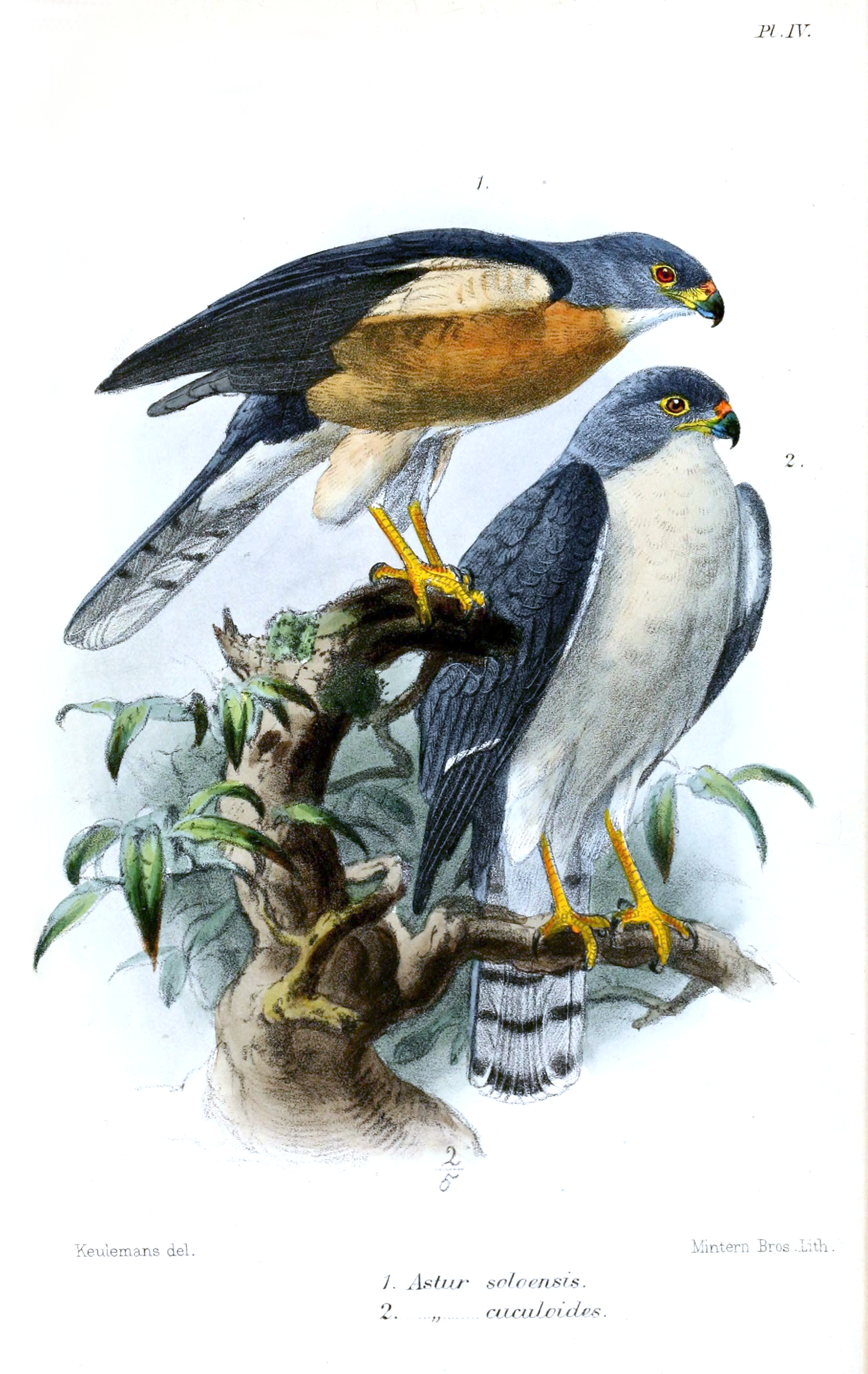 Chinese Sparrowhawk or Chinese Goshawk